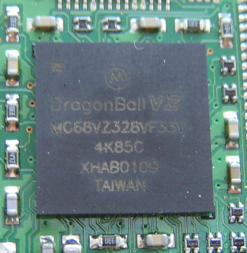 Motorola Dragonball